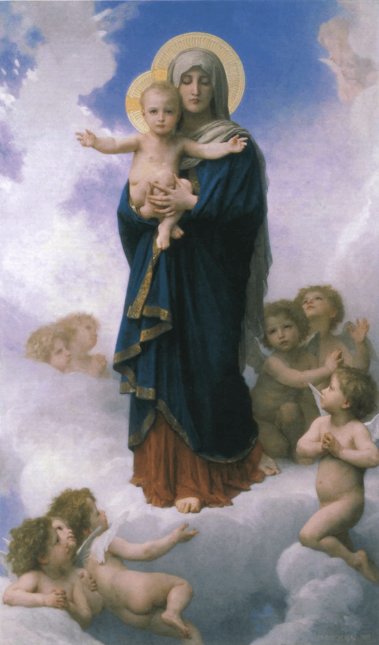 Notre Dame des Anges (french for "Our Lady of the Angels") by William-Adolphe Bouguereau. Catalogue number: 1889/07 Dimensions: 230,5 x 134,5 cm In 2010 the painting was owned by a private collector.